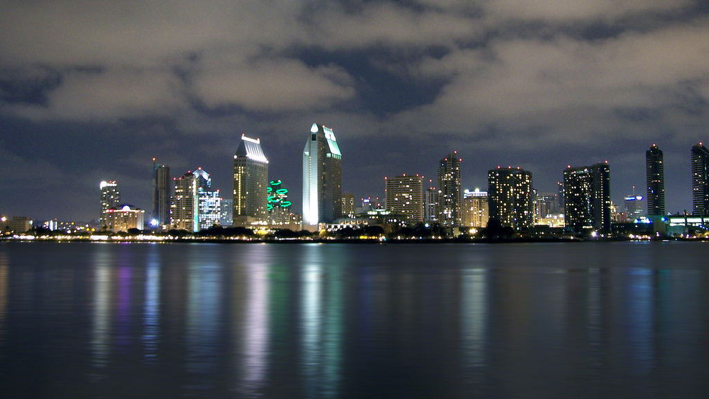 Photo of the San Diego skyline